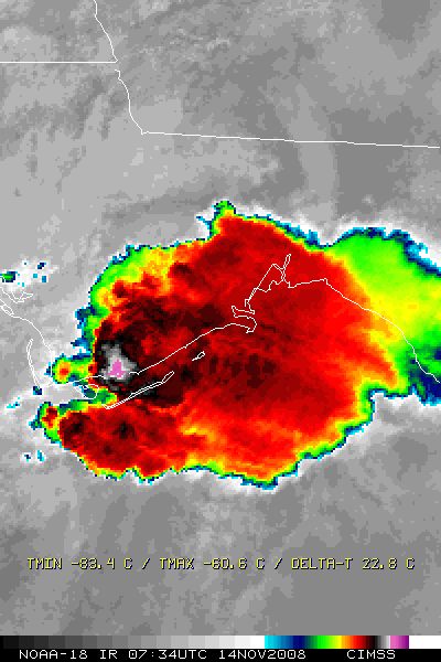 Infrared satellite images of the remnants of Paloma impacting the Florida Panhandle